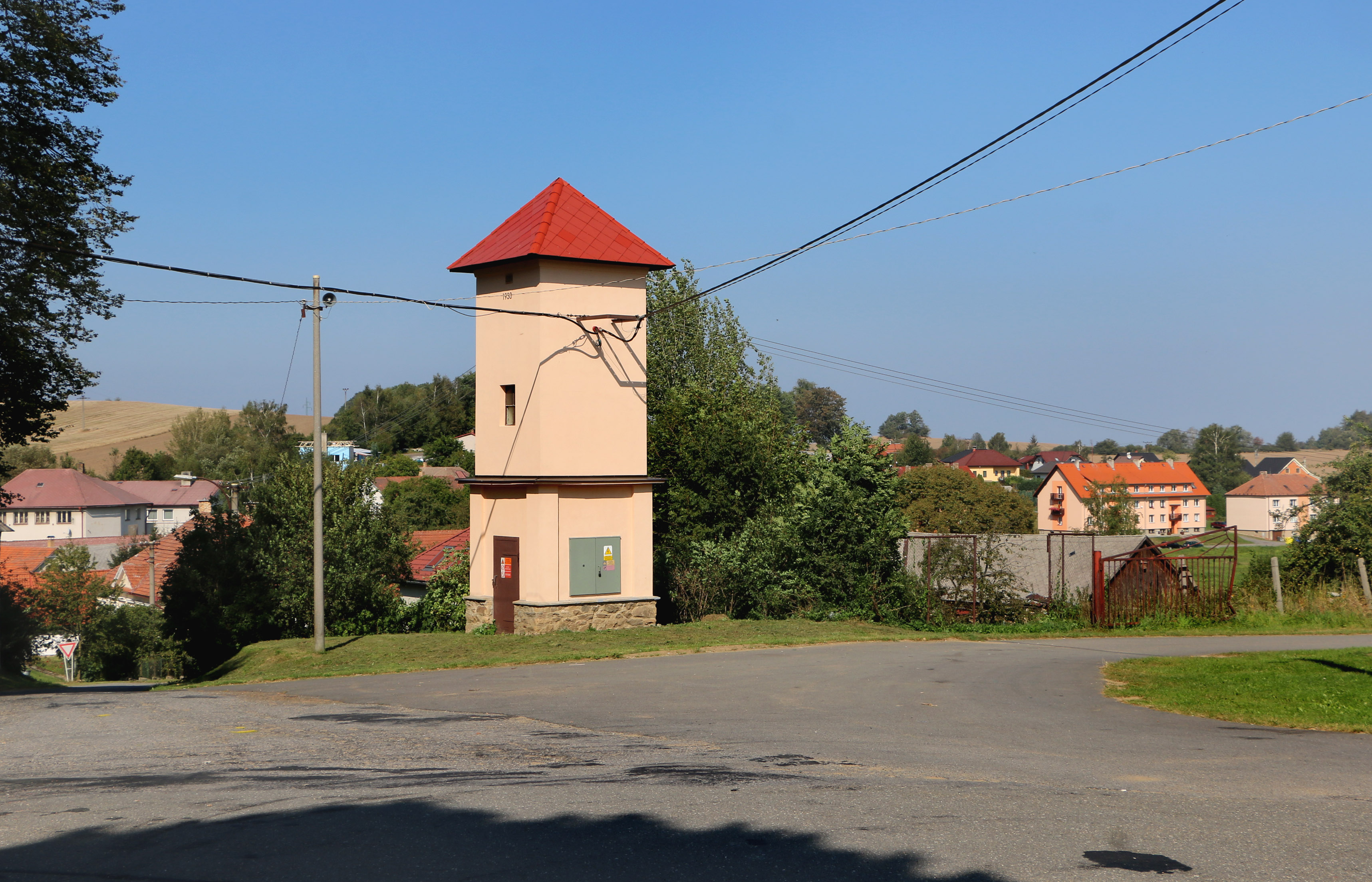 Common in Vyskytná, Czech Republic.